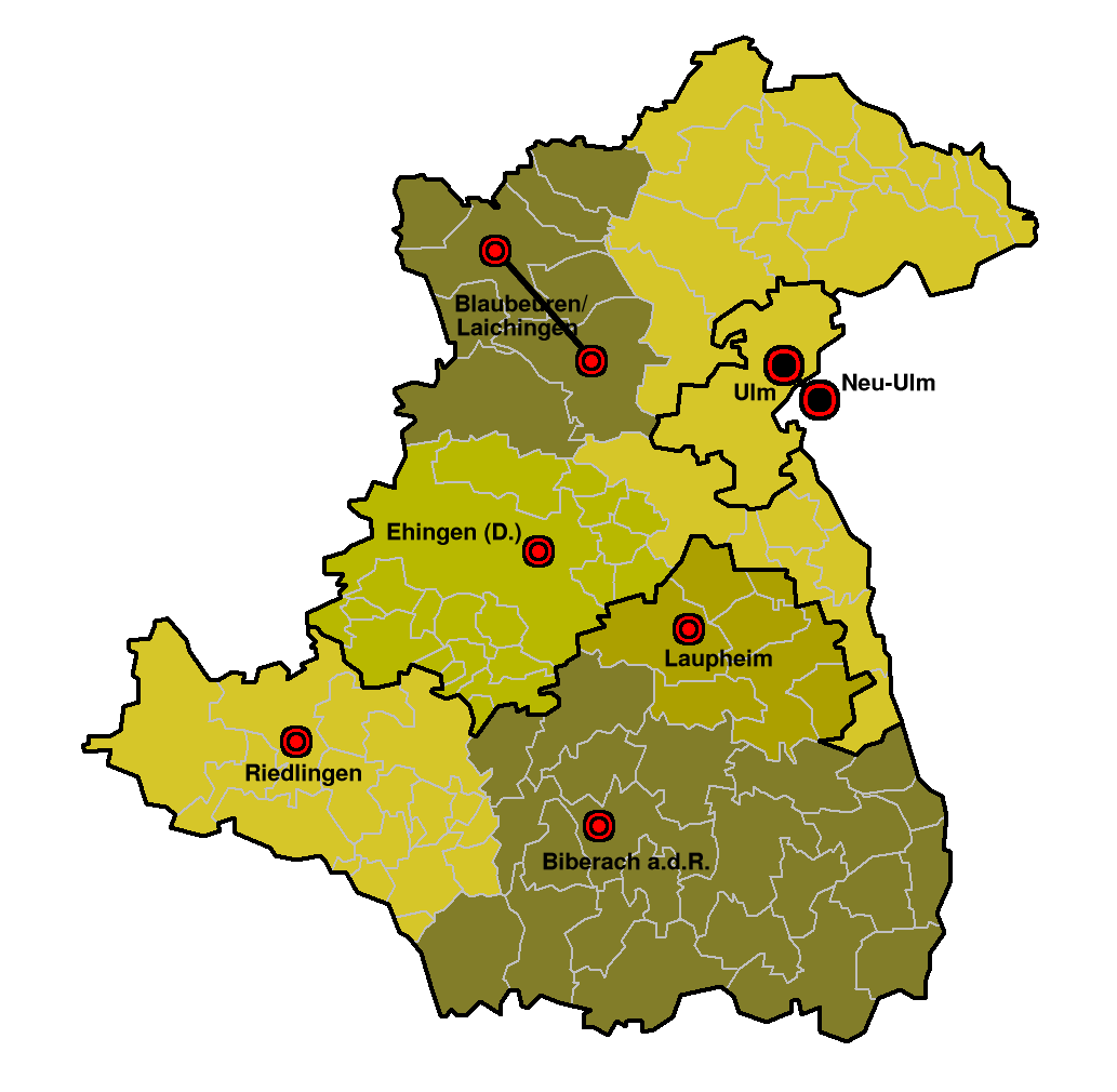 Maps of planning regions (Mittelbereiche) in the region Donau-Iller (Baden-Württemberg part), Germany